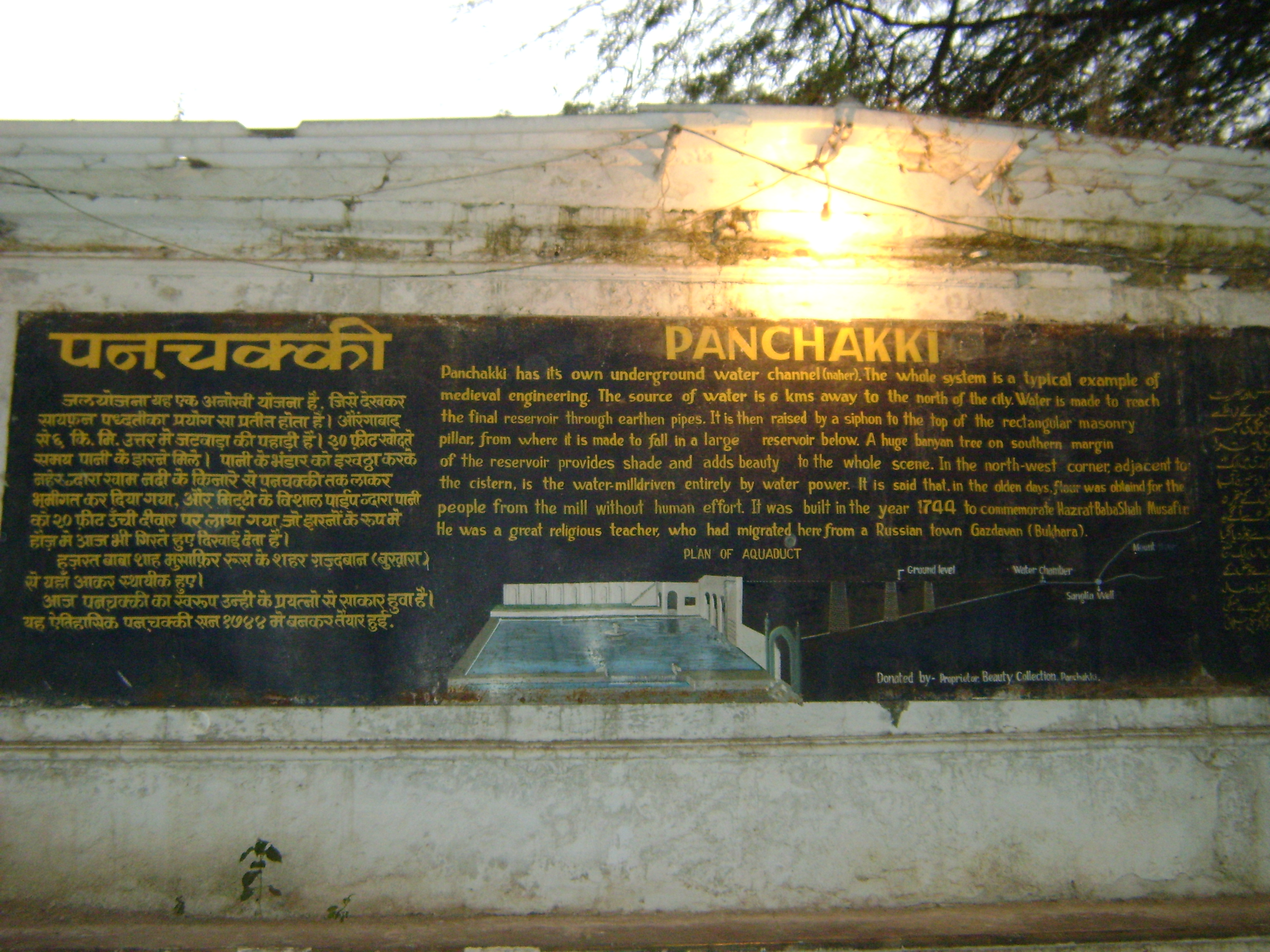 This is the board installed at the entrance of Panchakki describing its history and working